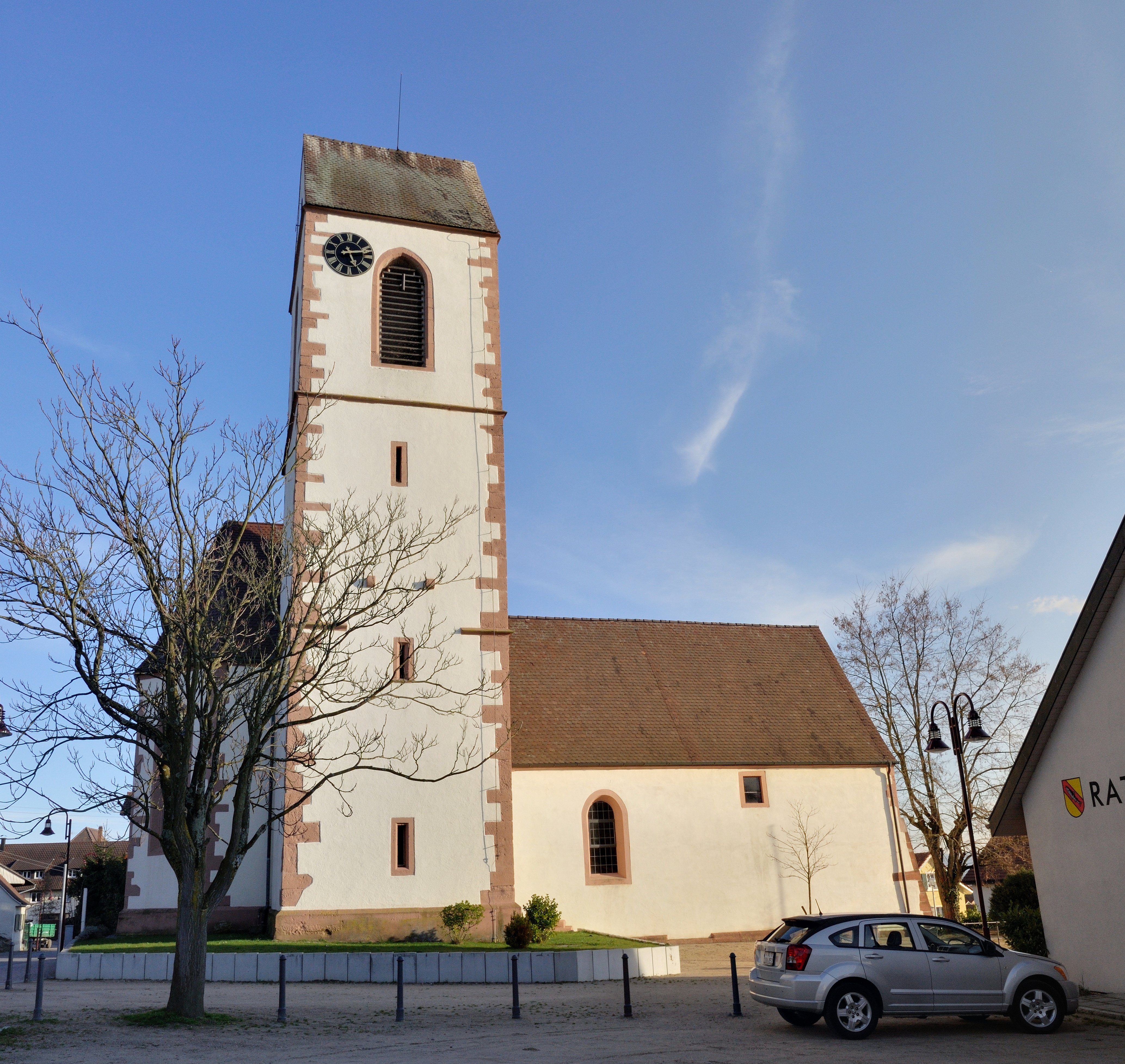 Fischingen: Protestant Church